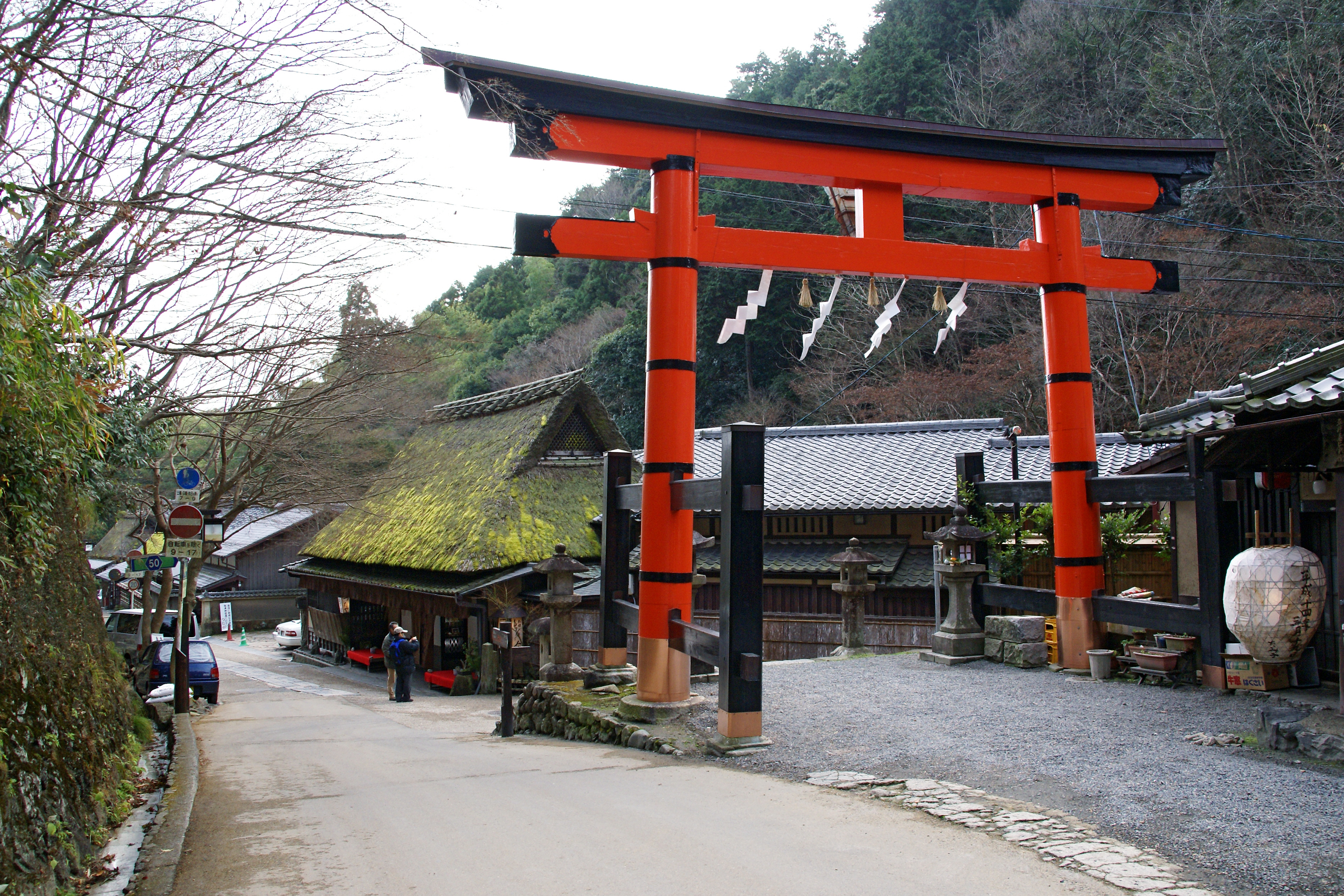 Saga-Toriimoto in Sagano, Kyoto, Kyoto prefecture, Japan